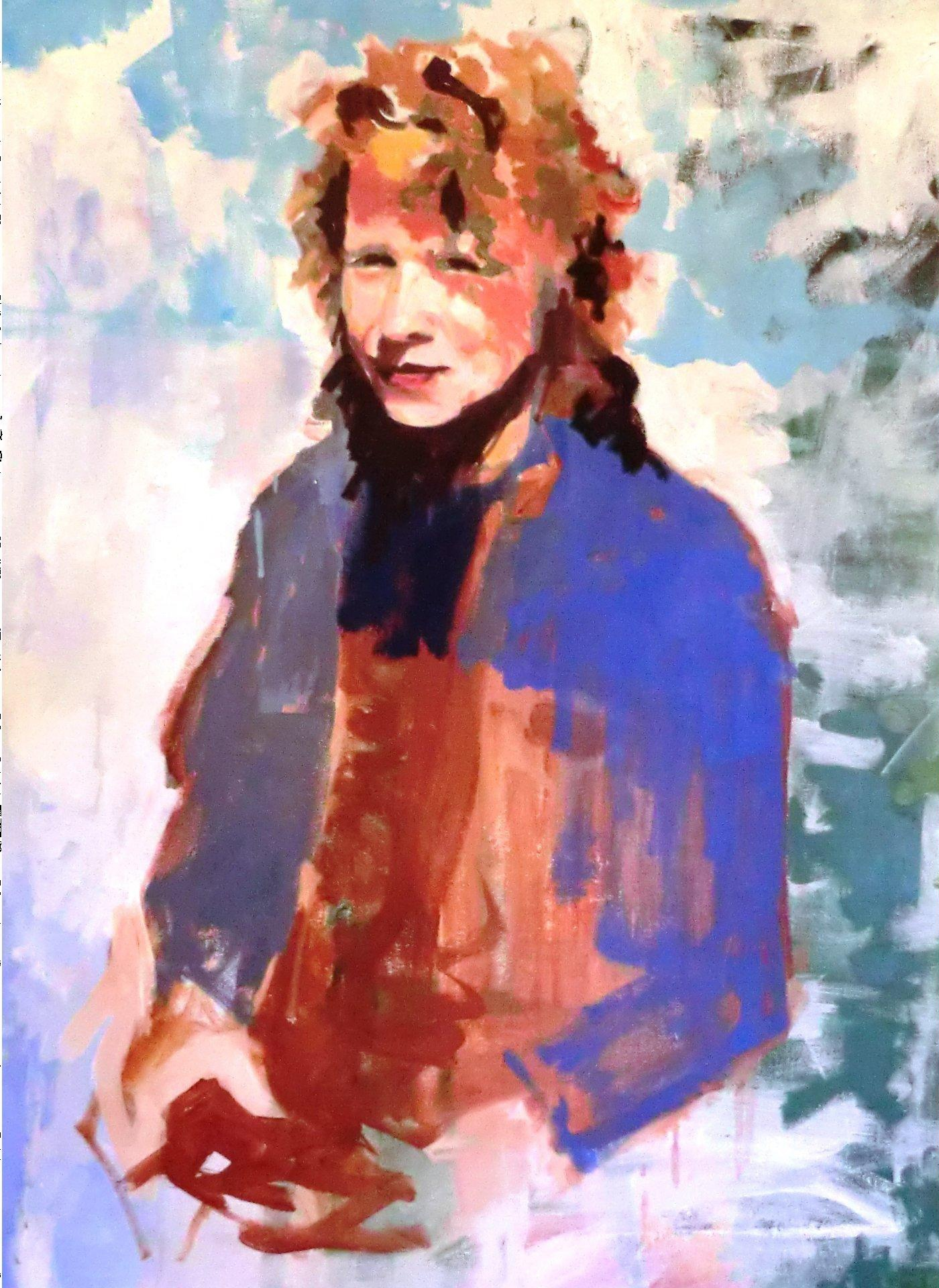 A 'studio di macchia’ portrait of the artst's wife, Angela Ross. An example of the "macchia" underpainting and partial overlay of pigment giving this portrait an abstract quality. This characterizes the artist's "Vinci" style which is a hats off to drawing as a means of observation (Leonardo) combined with the artist's interest in "spot" or "stain" technique from the Italian I Macchiaioli.